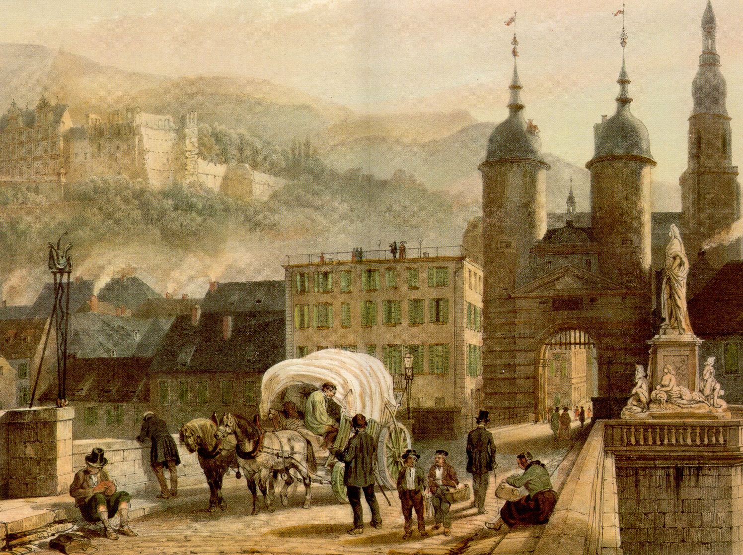 historic views of Heidelberg, Germany